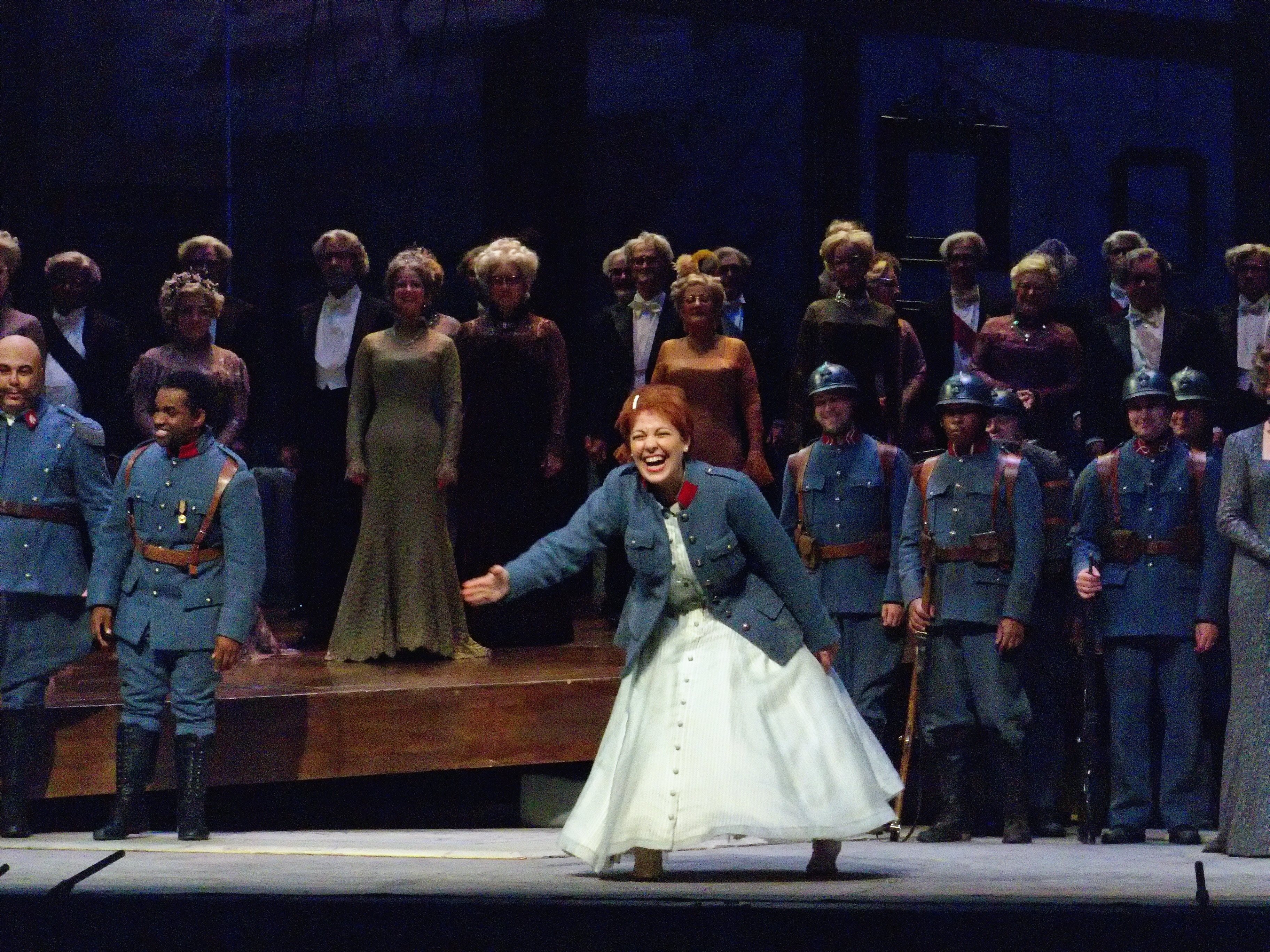 Nino Machaidze - Marie La Fille du Régiment (The Daughter of the Regiment) Metropolitan Opera House, December 24, 2011; Production and costumesː Laurent Pelly